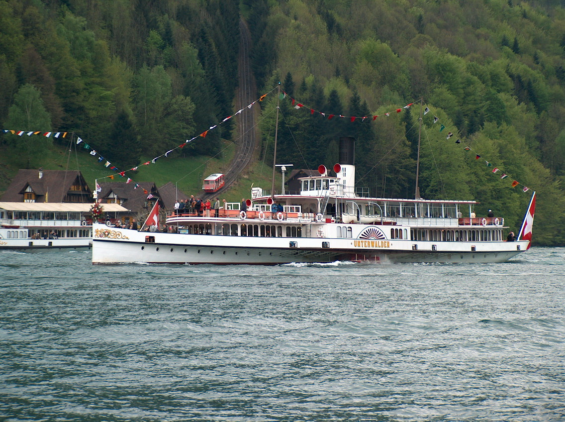 Lake Lucerne paddle steamer "Unterwalden" at Treib (in the background: funicular to Seelisberg). Photo taken May 1, 2004 (Lake Lucerne "steamer parade" celebrating the renovation of steamer "Gallia").